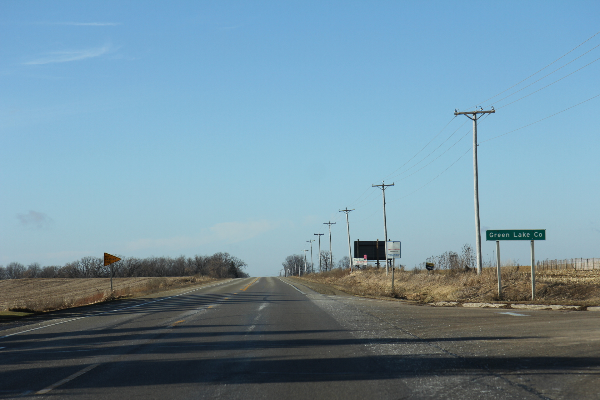 Looking west at the county welcome sign for Green Lake County, Wisconsin on Wisconsin Highway 44.